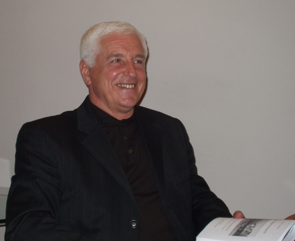 Neritan Ceka. Politician. Archaeologist. Albania. Photo: Bjørn Andersen, Copenhagen January 2006